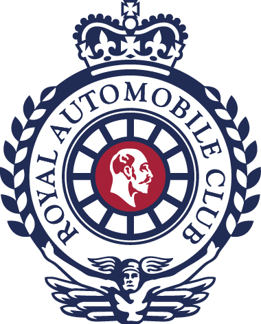 In 1907, Kind Edward VII granted the Automobile Club its royal title. His patronage was symbolised by a new badge: a winged Mercury holds up a wreathed wheel, surmounted by a crown, with a portrait of the Sovereign at the centre. The magnificent logotype is a representation of the original Club bonnet ornament. The reworked identity has placed emphasis back to the wheel, supported by a winged Mercury, to symbolise the Club's perpetual movement forward, and the drive of members to continue to follow new paths with vitality and enthusiasm.